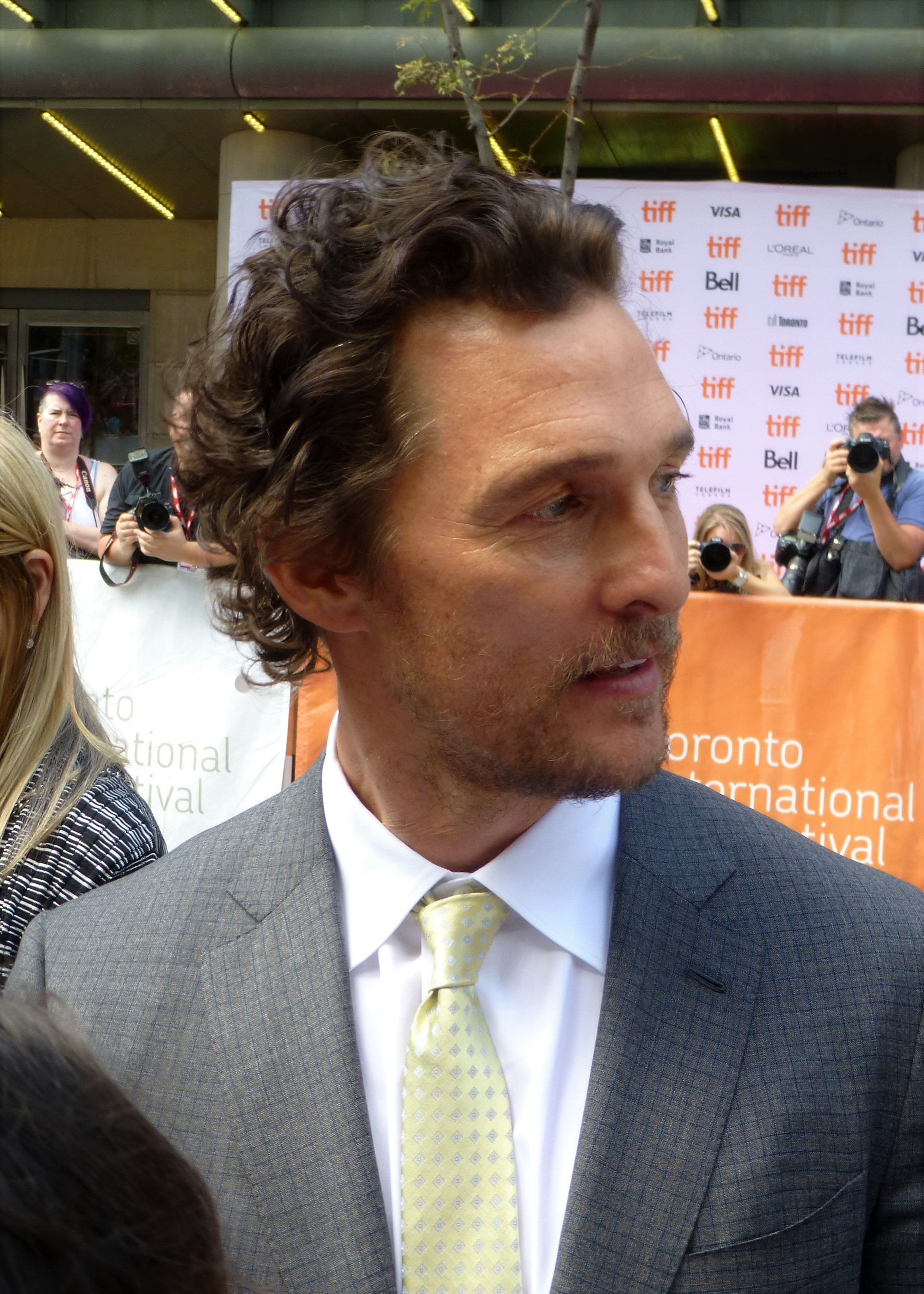 Matthew McConaughey at the premiere of Sing, 2016 Toronto Film Festival